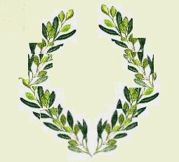 olive-wreath